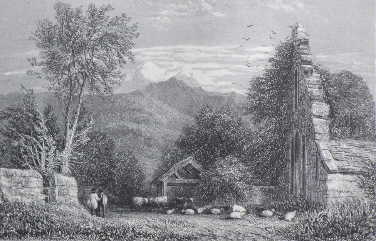 Engraving from Hanes y Brutaniaid a'r Cymry by Gweirydd ap Rhys (1886), showing ruins of Abaty Cymer abbey near Dolgellau (Gwynedd, Wales), with Cadair Idris in the background. From an earlier painting (first half 19th century?).